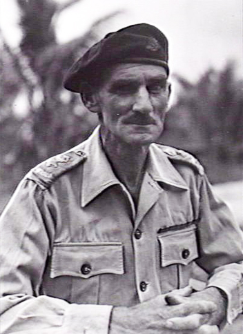 Morotai. 1945-09-01. Lieutenant Colonel A. L. Rose, 1st Australian Combined Operations Section, HQ 1 Corps.